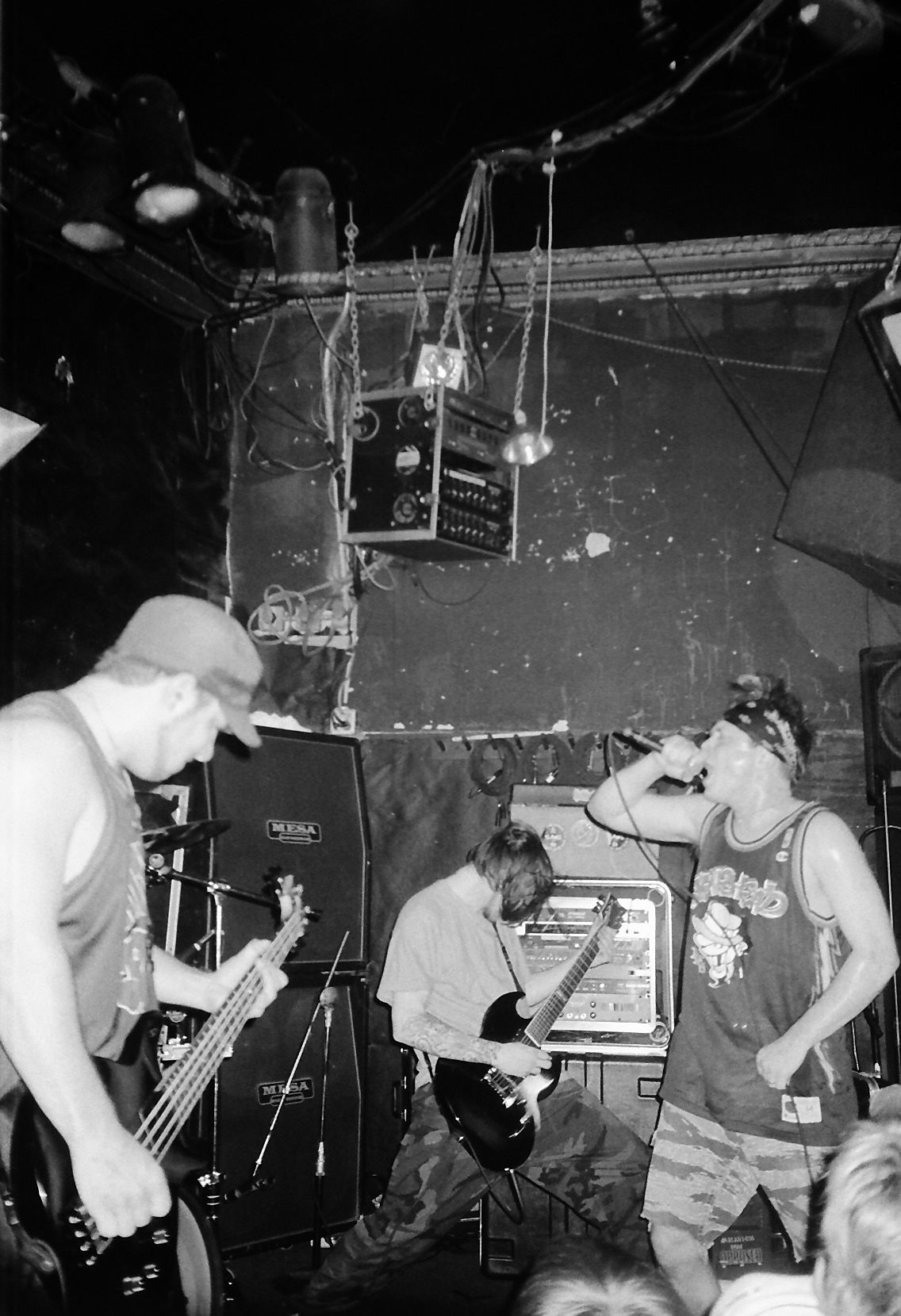 Earth Crisis at The Point in Little Five Points, Atlanta, GA in 1998